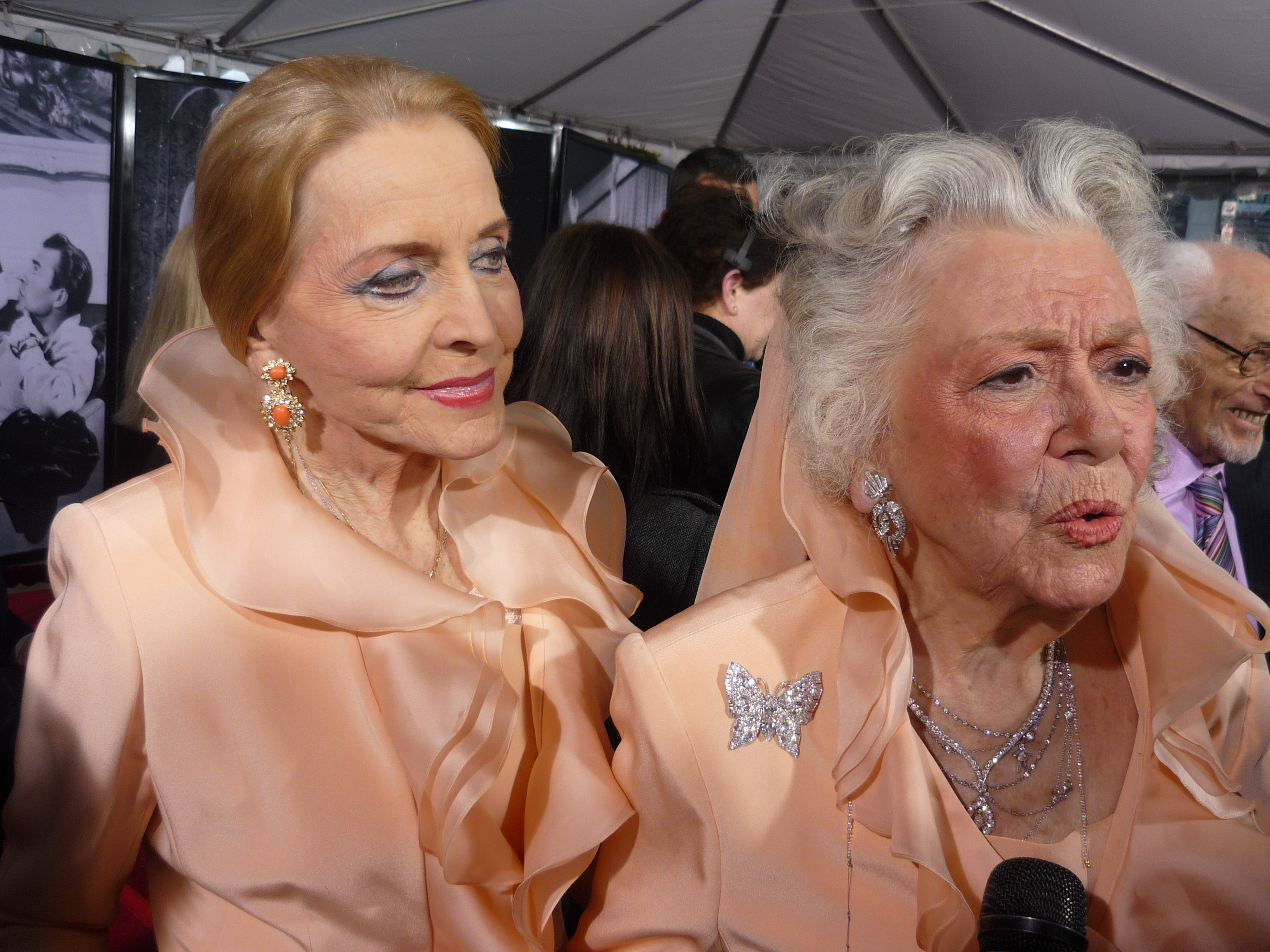 Anne Jeffreys and Ann Rutherford at the TCM Classic Film Festival in April 2010.